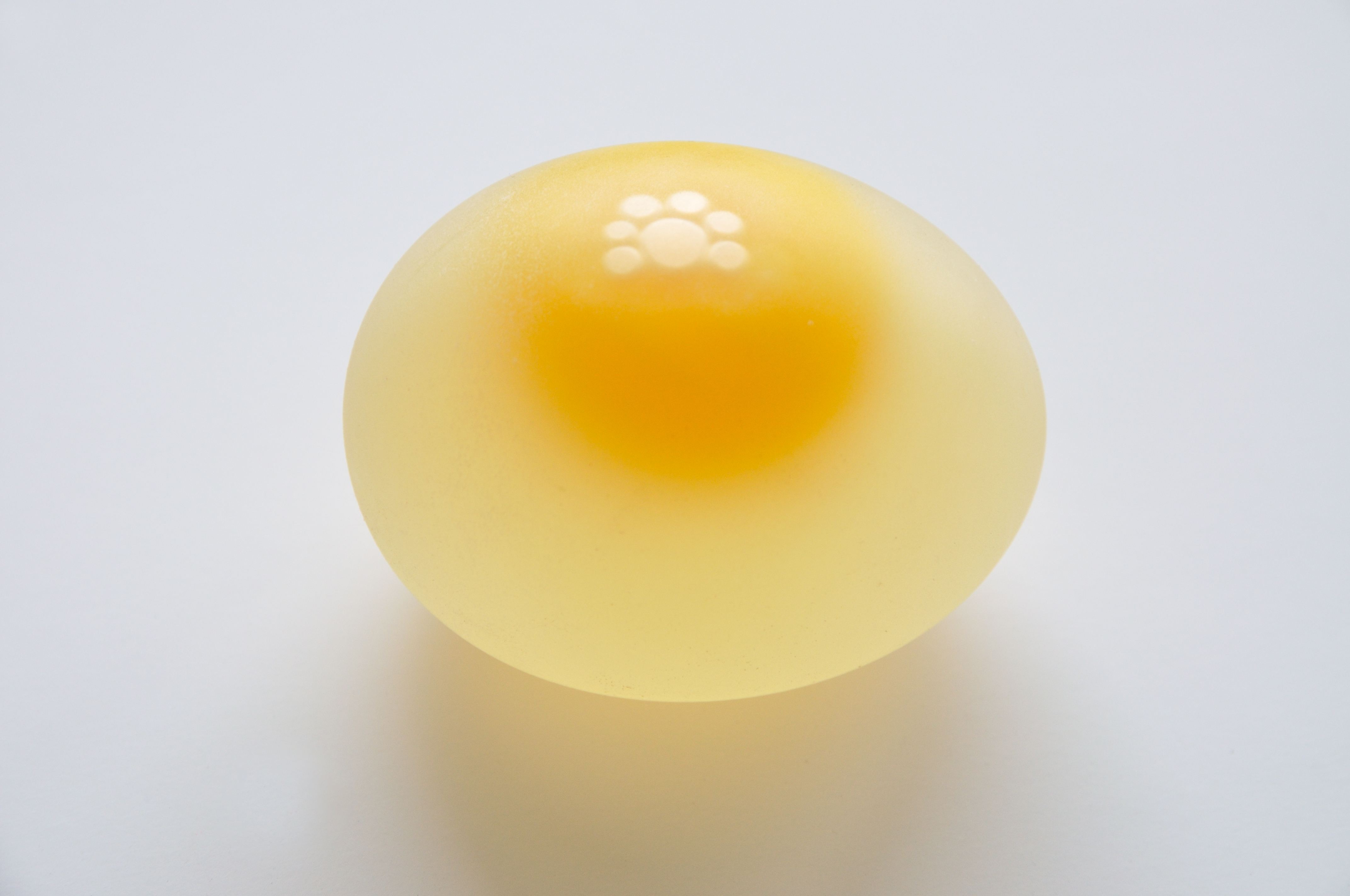 The white eggshell has been removed by dipping a normal chicken egg into vinegar for 48 hrs. Very little retouched.